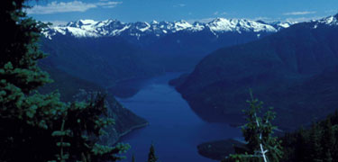 Ross Lake taken from